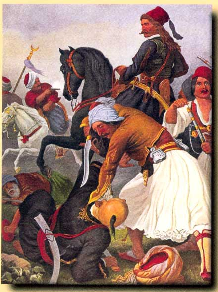 Andreas Metaxas, Greek diplomat and prime Minister